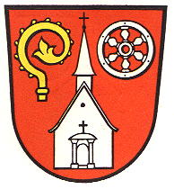 Coat of Arms of Kirchzell